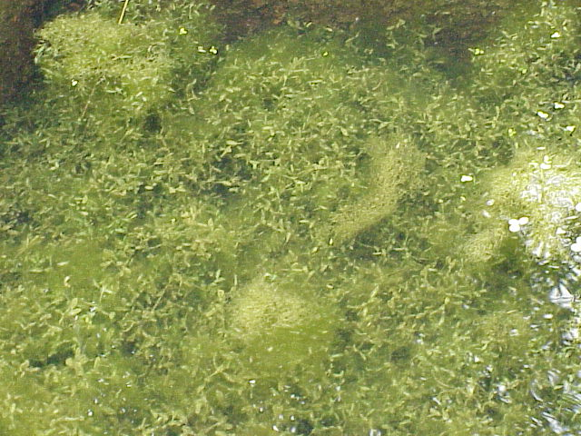 Species: Lemna trisulca Family: Lemnaceae Image No. 1